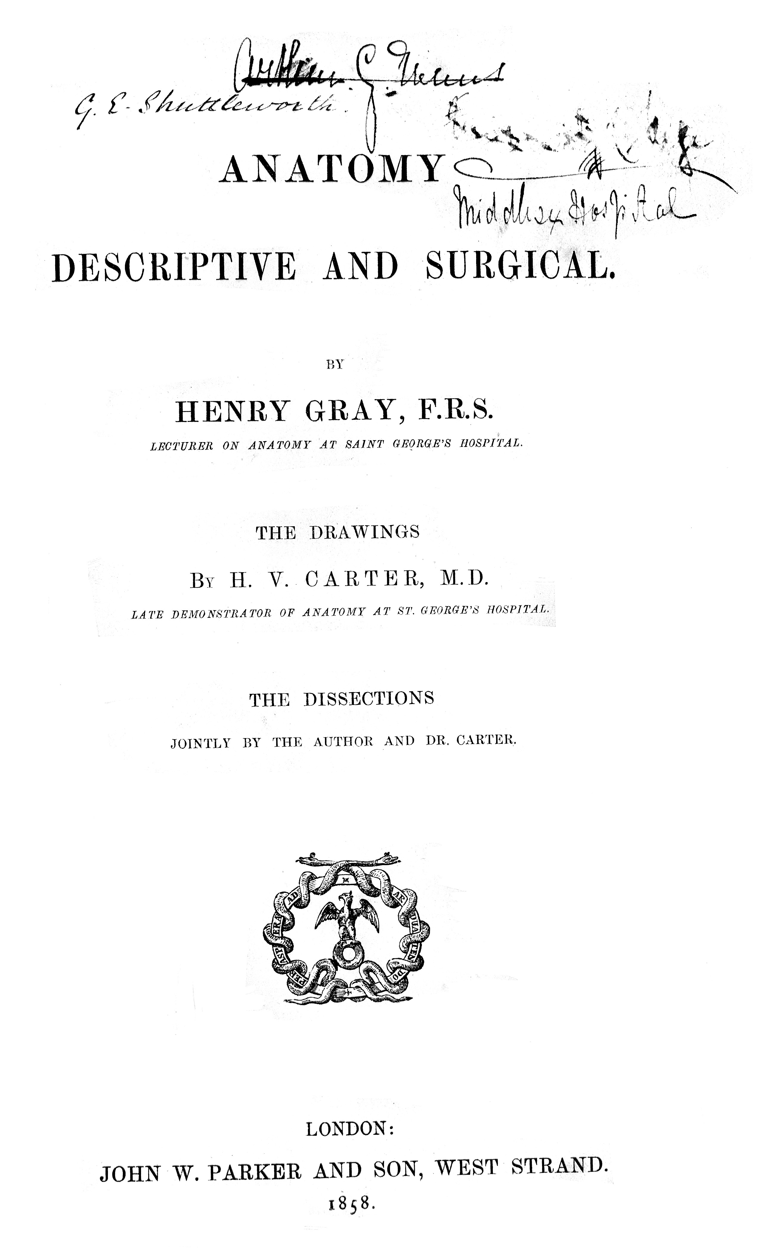 Title-page General Collections Keywords: Henry Gray